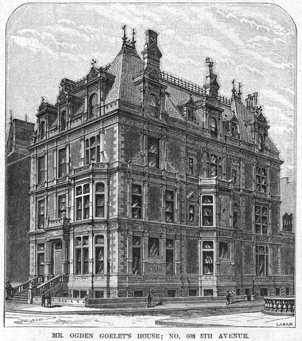 The mansion of Ogden Goelet at 608 Fifth Avenue. It was designed by architect E. H. Kendall and construction began in 1882 and was completed by 1884. The interiors were decorated by Louis Comfort Tiffany’s interior design firm, Associated Artists.